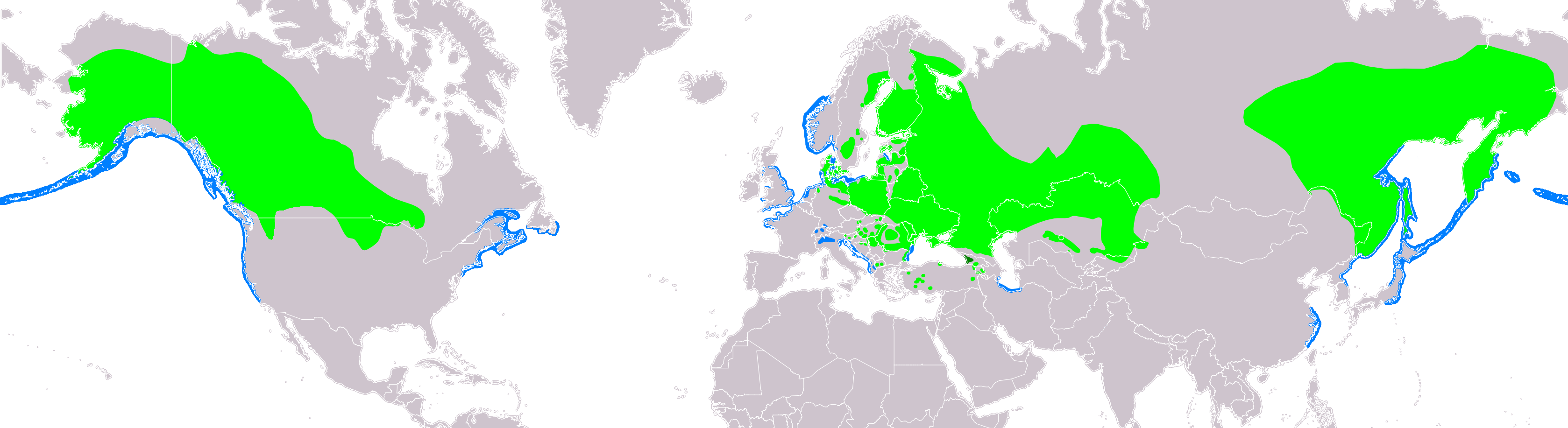 Map of red-necked grebe (Podiceps grisegena) according to IUCN version 2019-2 ; key: Legend: Extant, breeding (#00FF00), Extant, resident (#008000), Extant, non-breeding (#007FFF)